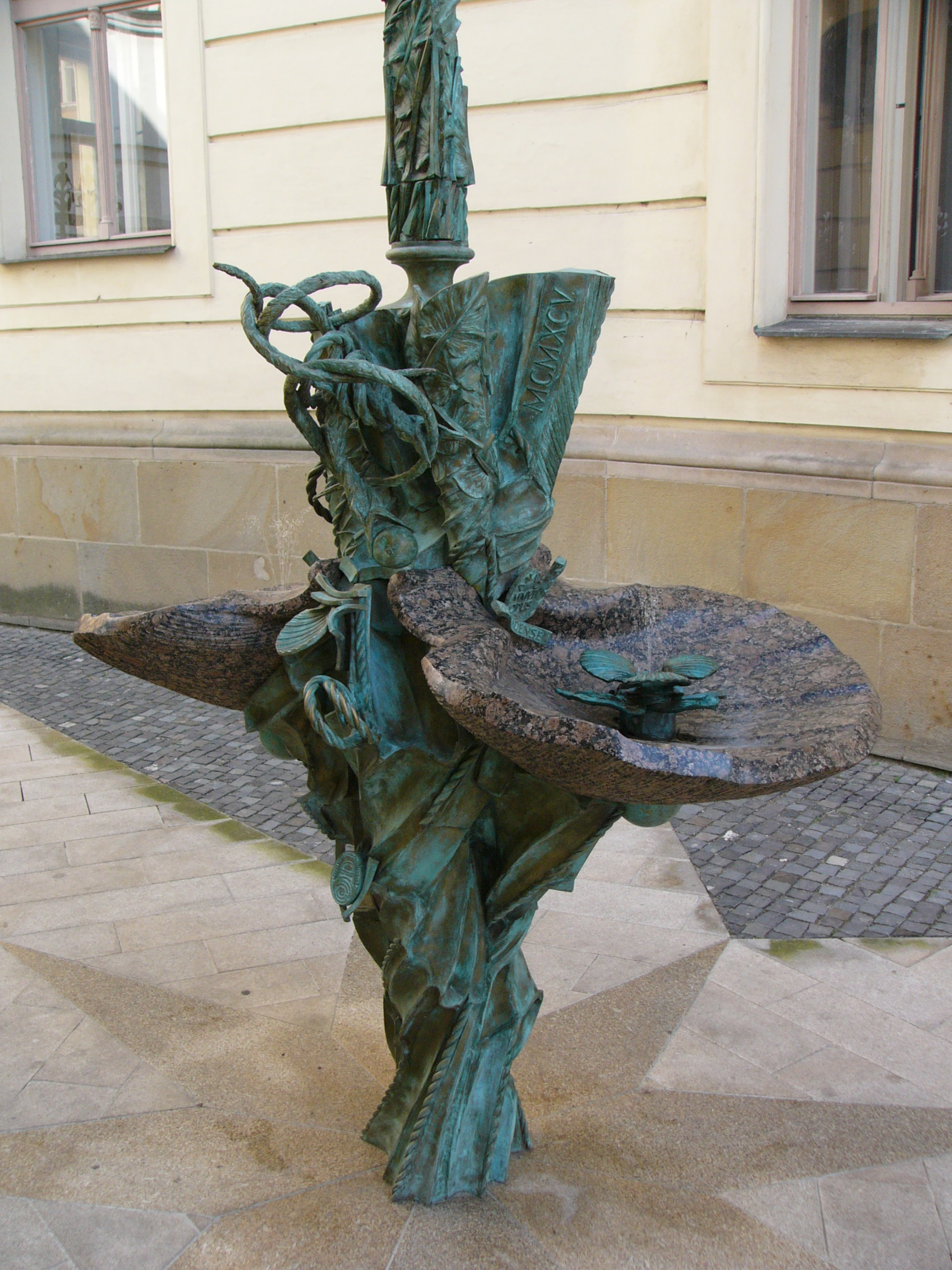 detail of Pramen živé vody sv. Jana Sarkandra fountain in Olomouc, the Czech Republic. Made by sculptor Otmar Oliva in 2007.